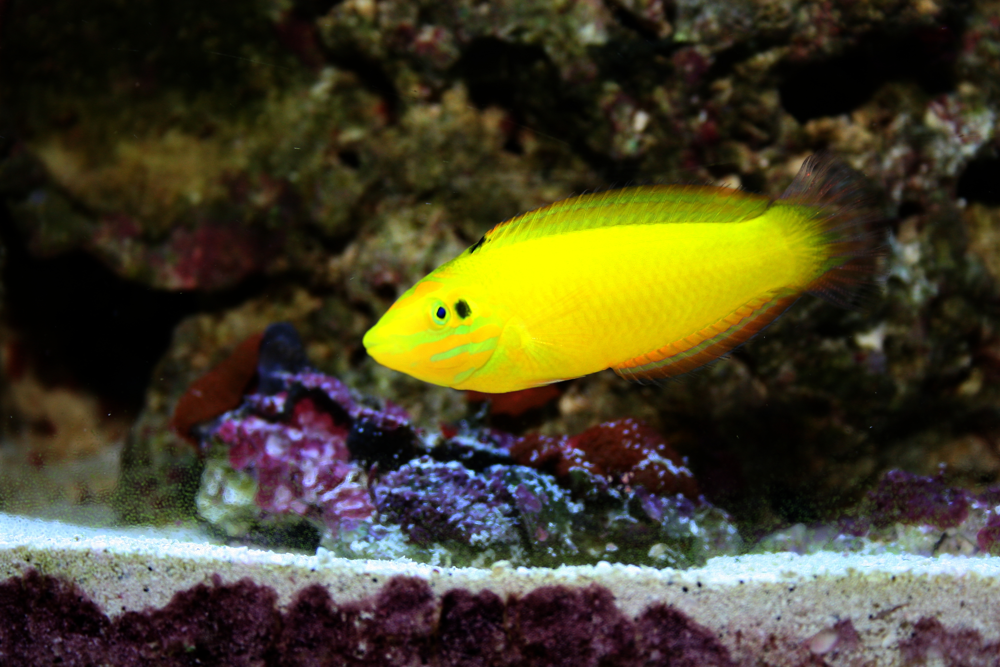 Yellow Wrasse, wrasse, fish, saltwater, marine